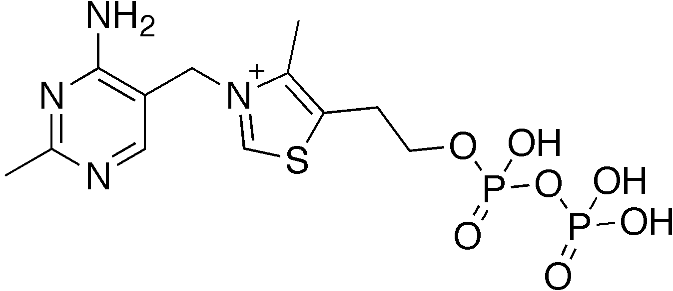 chemical structure of thiamine diphosphate (thiamine pyrophosphate)